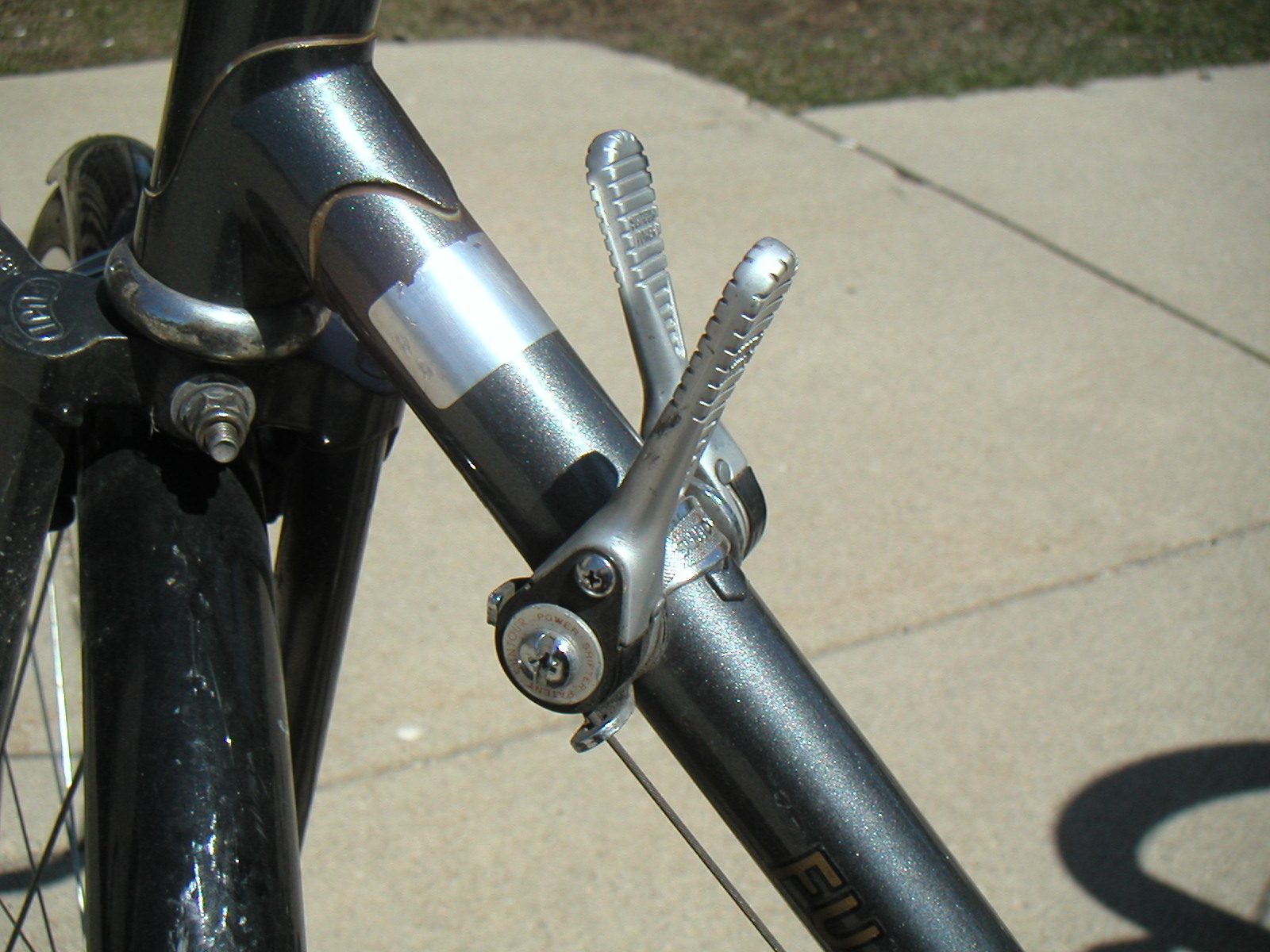 Taken by Andrew Dressel